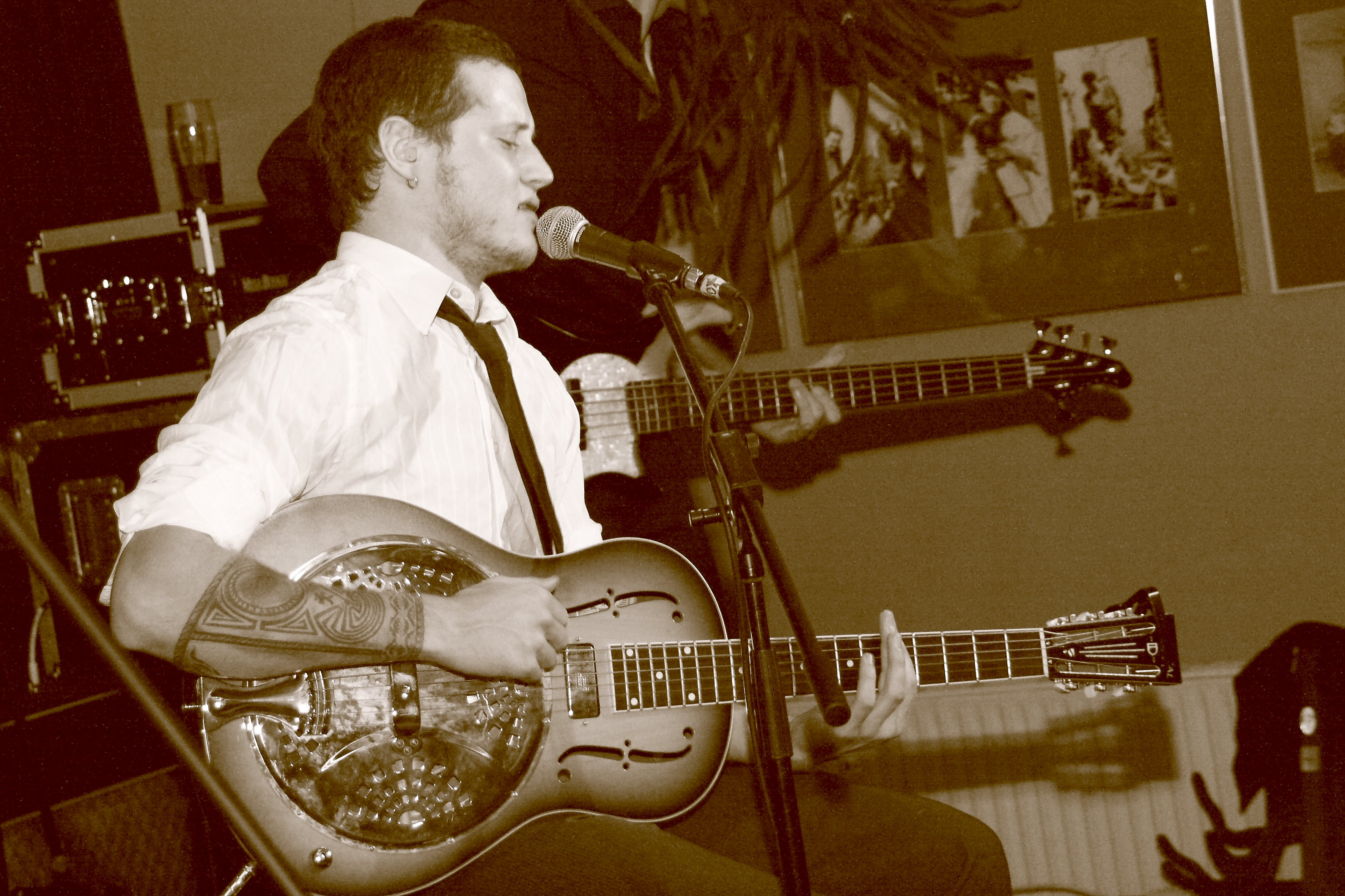 The Delta Saints at Club W71, Weikersheim.